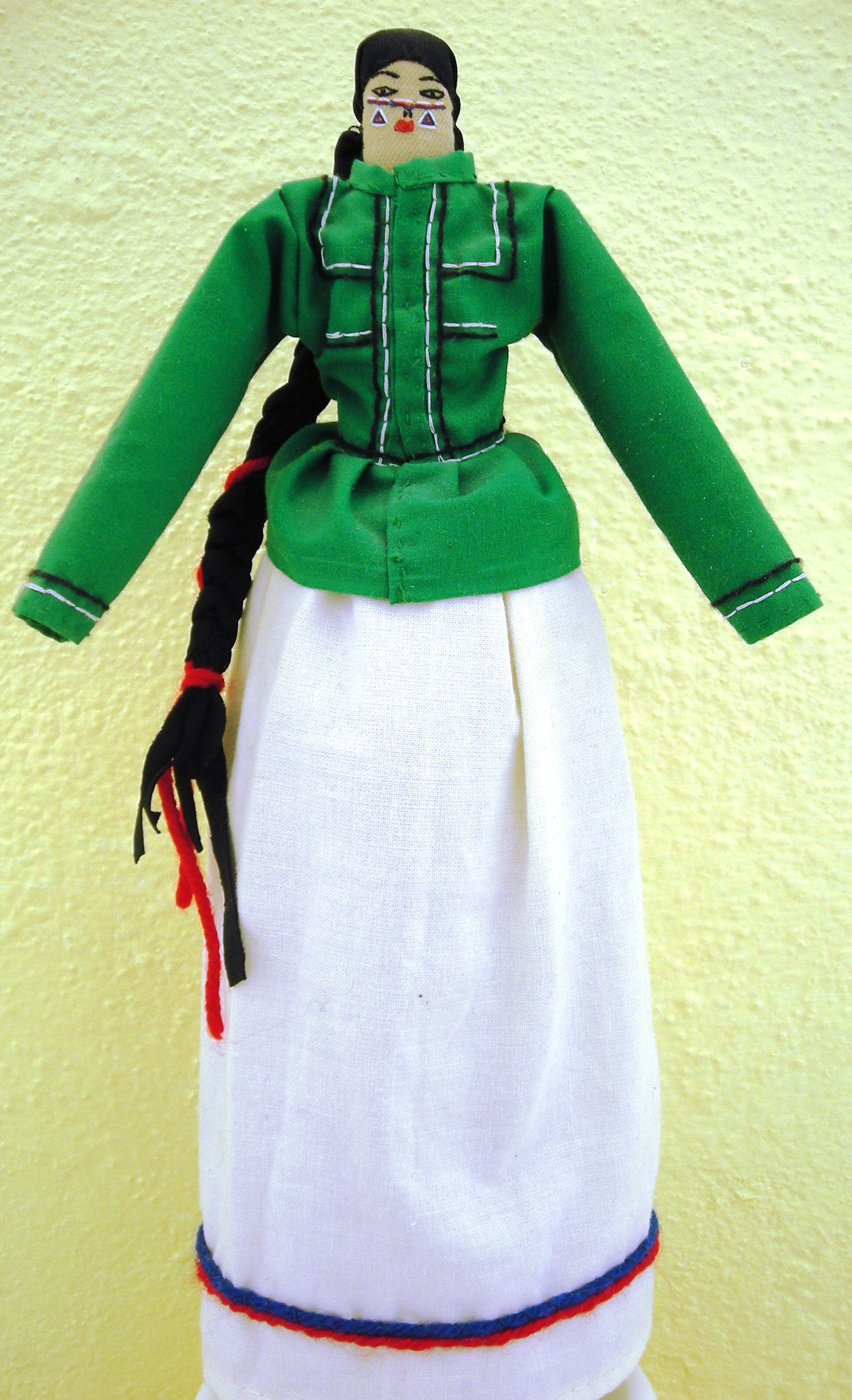 Seri doll muñeca (woman in traditional dress)